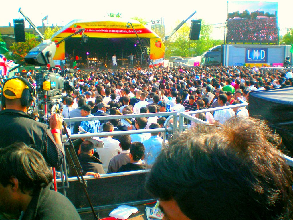 Crowds at the Baishakhi Mela